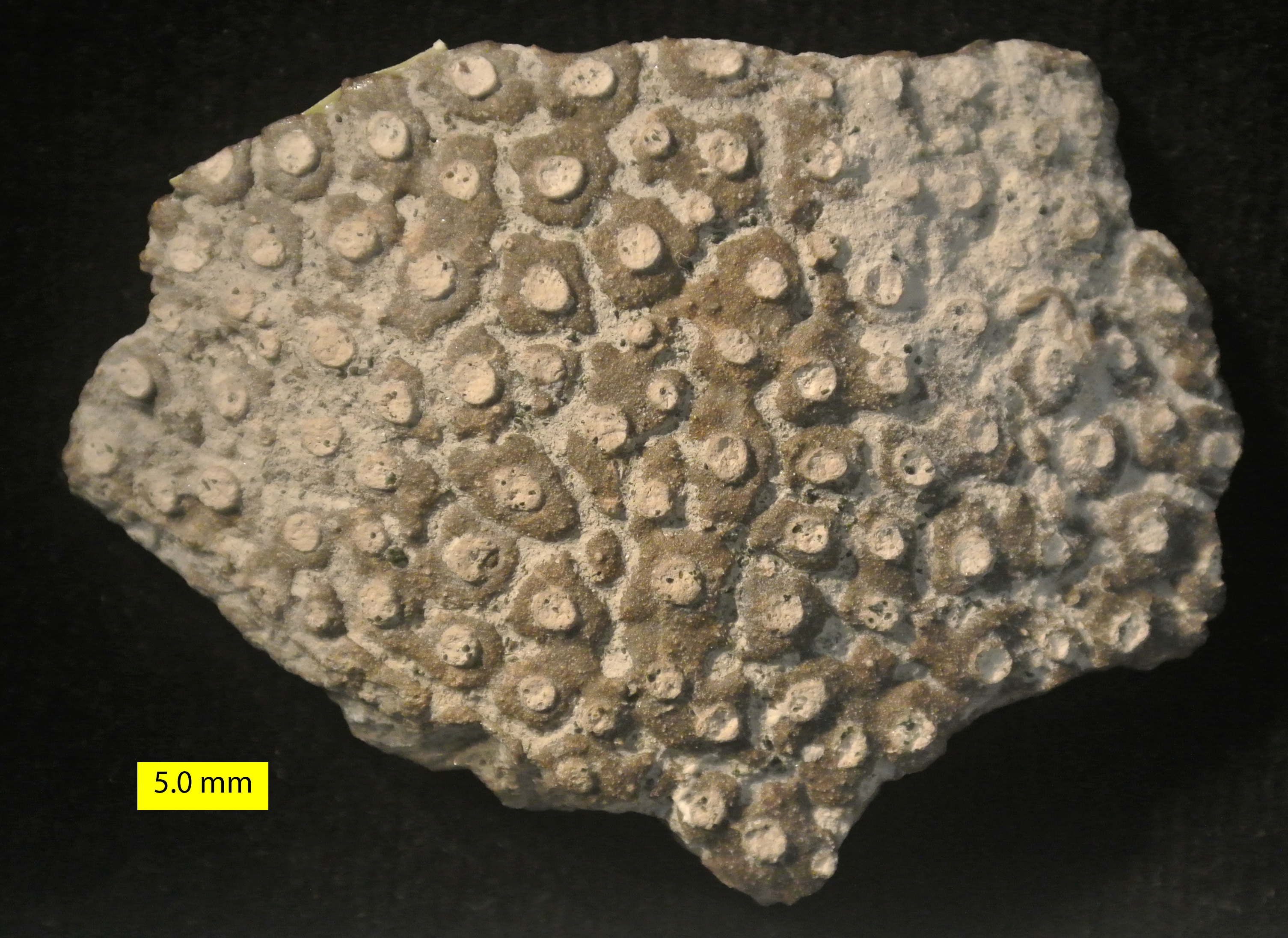 Entobia, a sponge boring from the Prairie Bluff Chalk Formation (Maastrichtian, Upper Cretaceous) of Starkville, Mississippi. Preserved as a cast of the excavations.